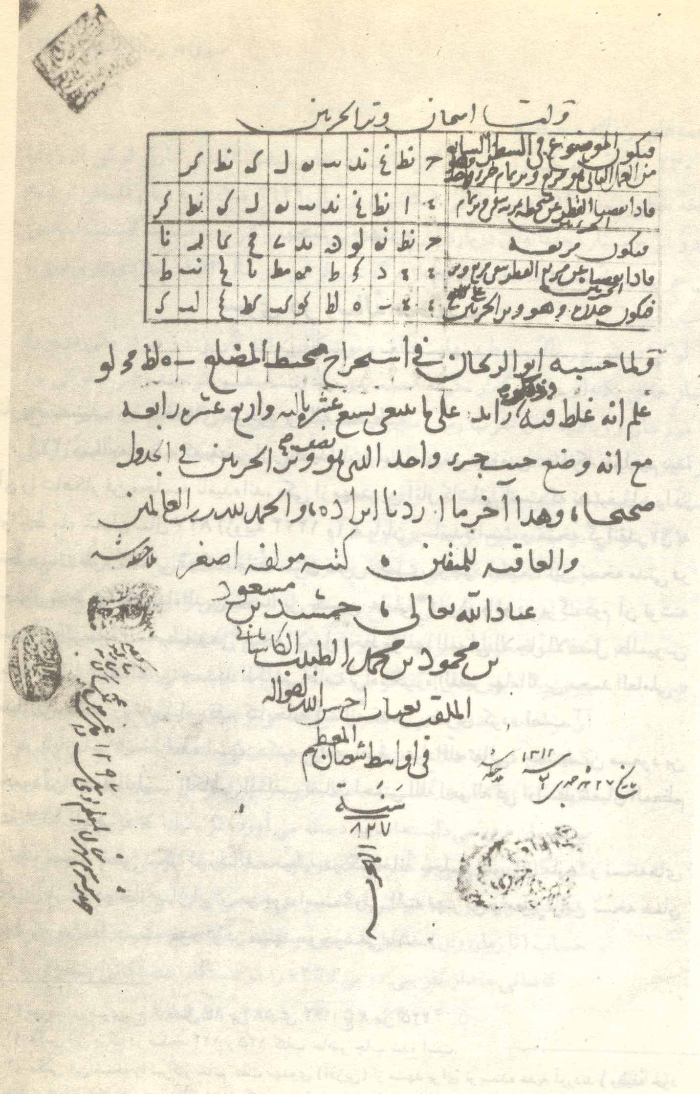 this is considered in public domain now because its copyright condition has been already expired in Iran. according to the "National law in support of authors, composers and artists" ratified in 01/01/1970 and published in 01/02/1970, the license for photographs and films after their issuing date is valid for 30 years.